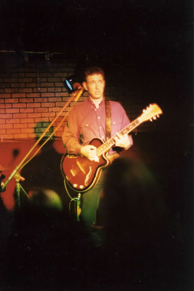 photo by Einar Einarsson Kvaran Jonathan Richman